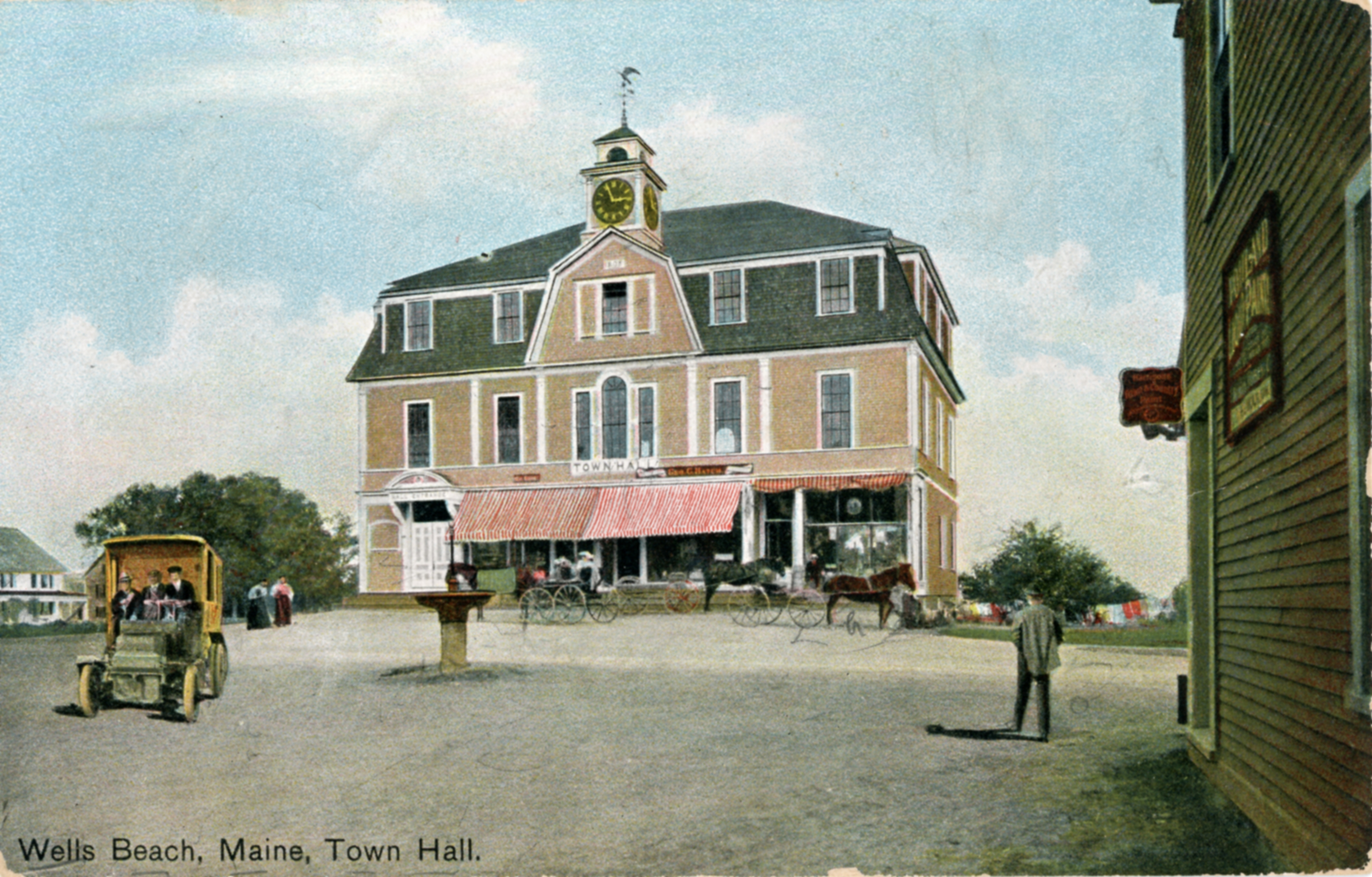 1911 postcard of the town hall in Wells, Maine, USA.